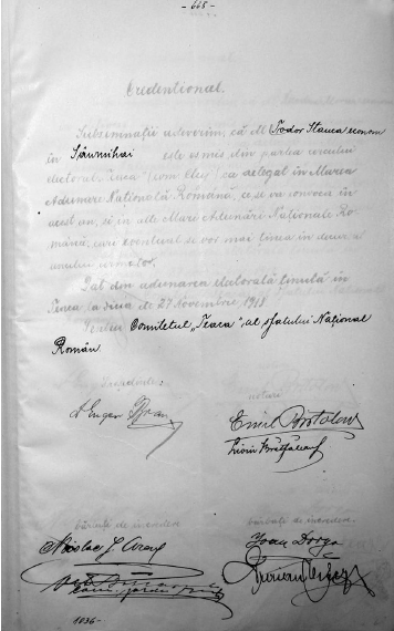 Mandate of the Electoral district of Teaca, in which it says that the Romanian politician Todor Stanca was elected, on 27th of november 1918, deputy in the Great National Assembly from Alba Iulia, Romania, 1918Română: Credenționalul Cercului electoral Teaca, în care scrie ca Todor Stanca a fost ales, la data de 27 noiembrie 1918, deputat în Marea Adunare Națională de la Alba Iulia, 1918